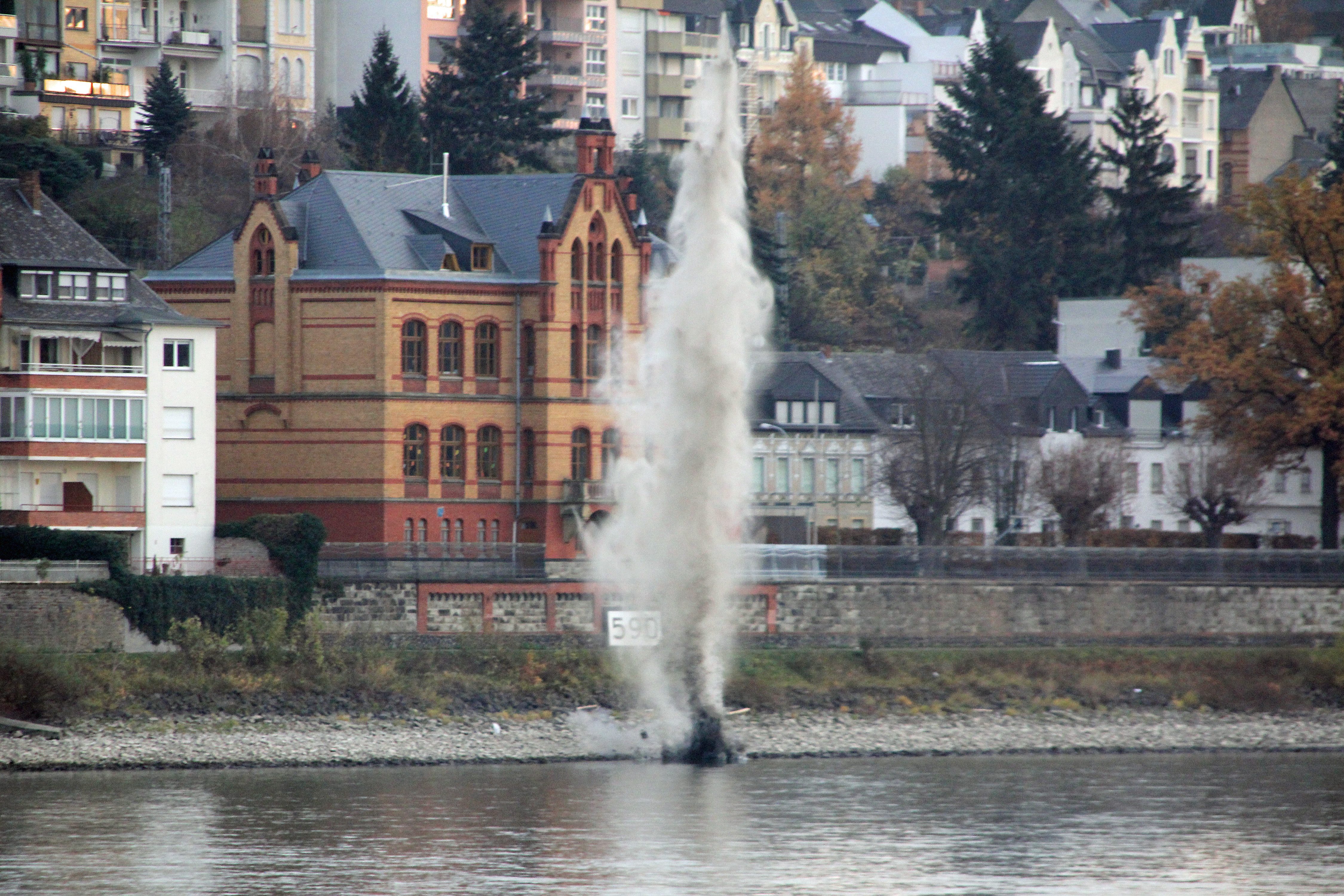 Blast of World War 2 ammunition in Koblenz